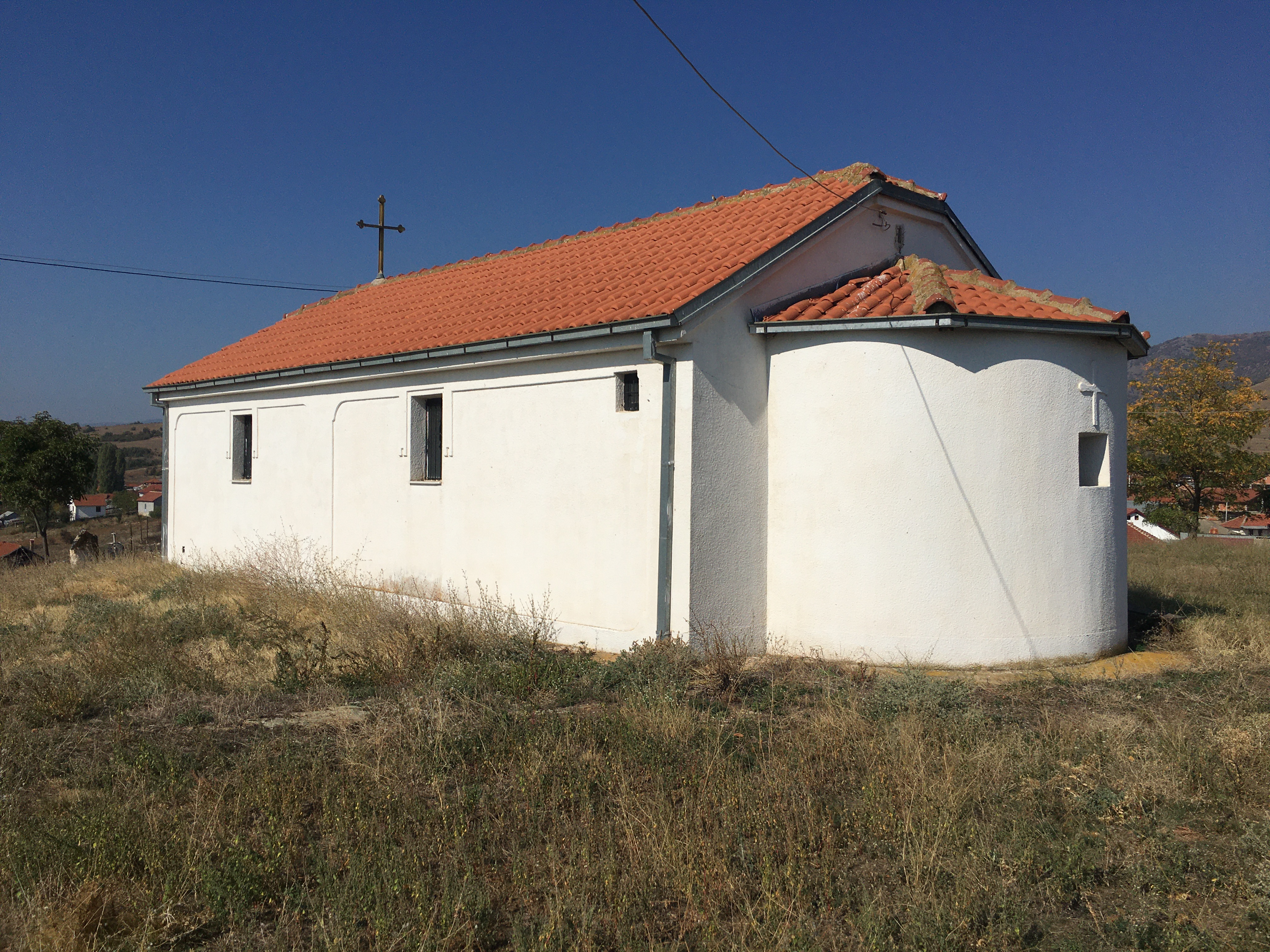 Holy Trinity Church in the village of Desovo